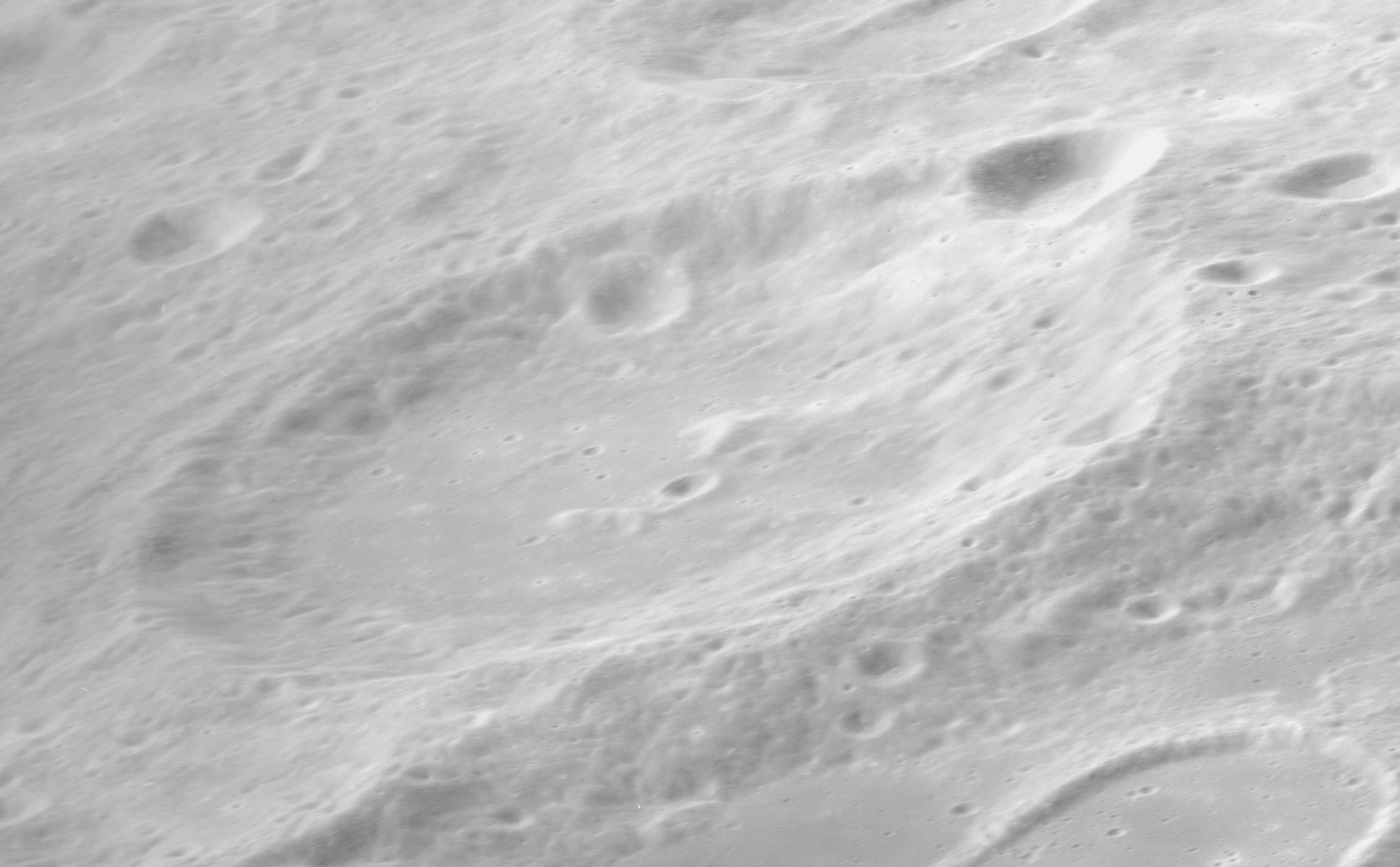 Oblique view of Lyapunov crater, facing north, on the far side of the moon. Taken by Apollo 16 panoramic camera. Brightness and contrast adjusted from original.